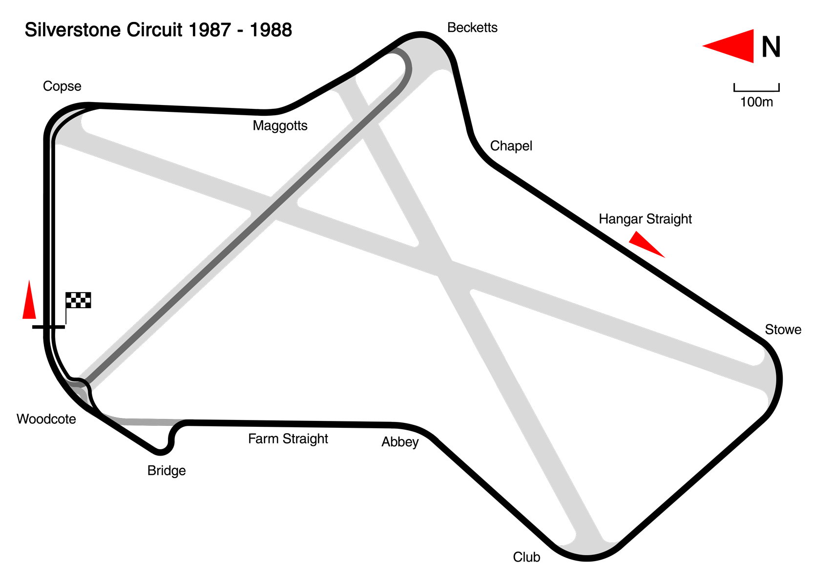 Track diagram of Silverstone Circuit in the UK in 1987 to 1988 configuration. Made to scale from aerial photographs.